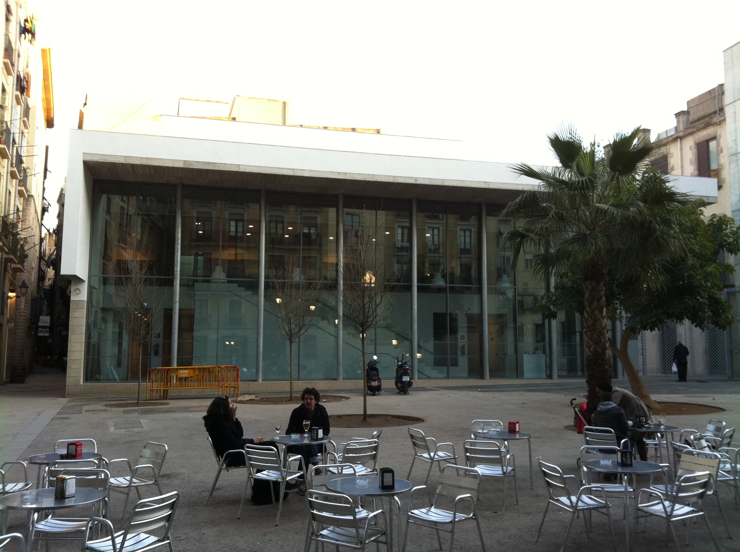 Biblioteca del Museu Picasso- Museu Picasso Library